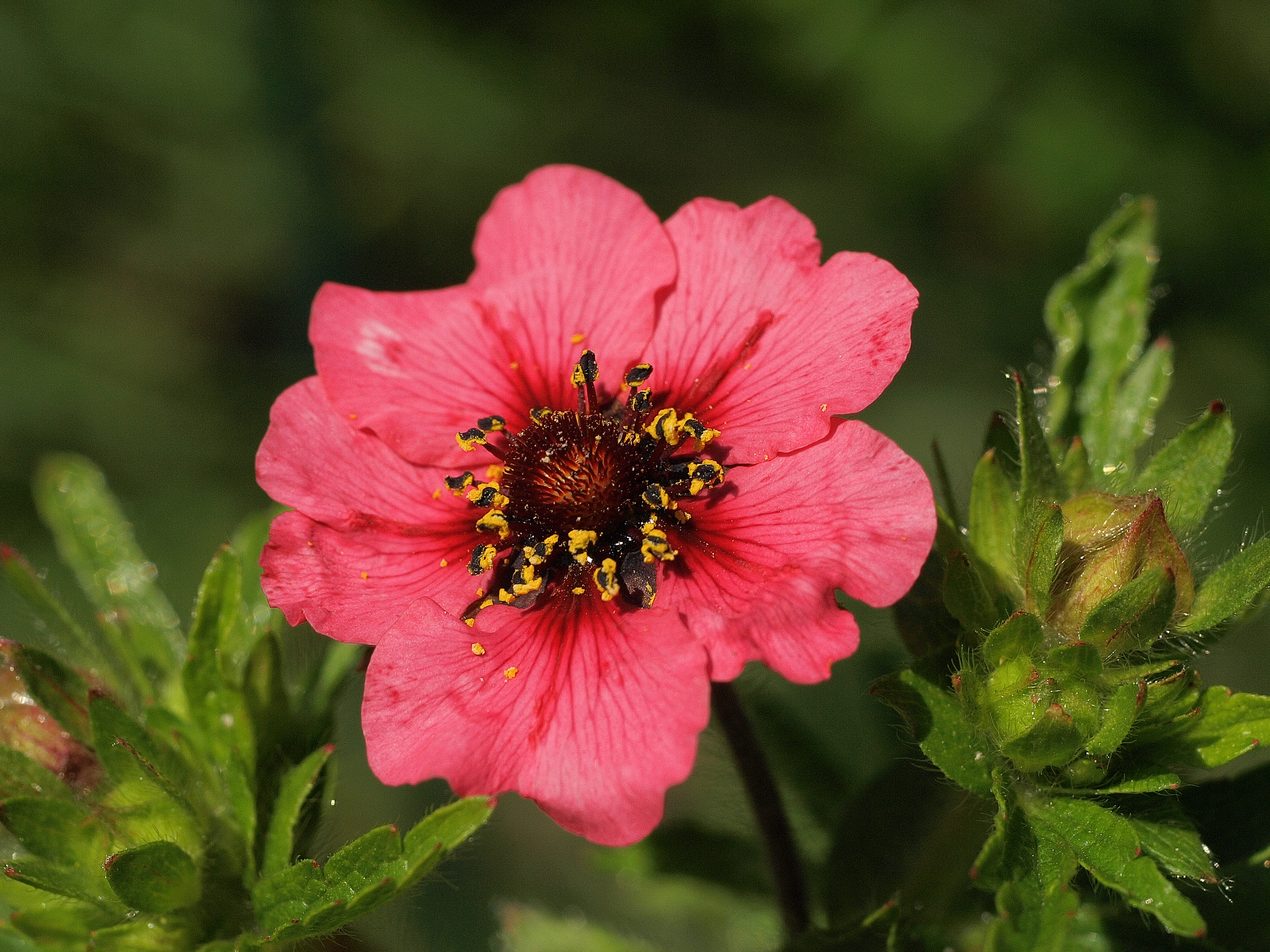 Cinquefoil (Potentilla).